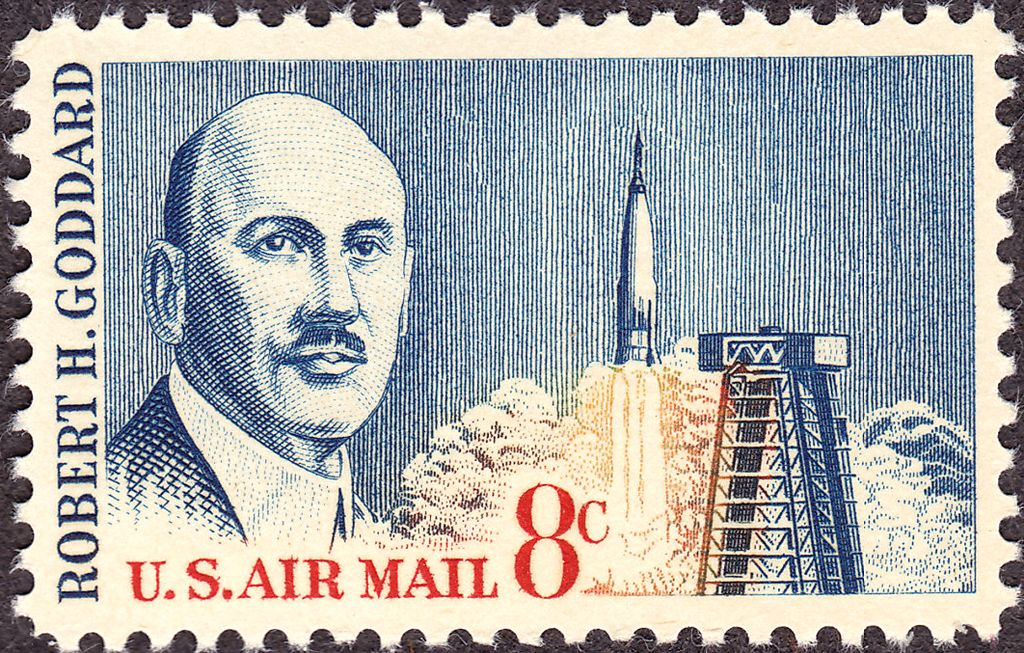 Robert_H_Goddard_1963_Issue-8c.jpg